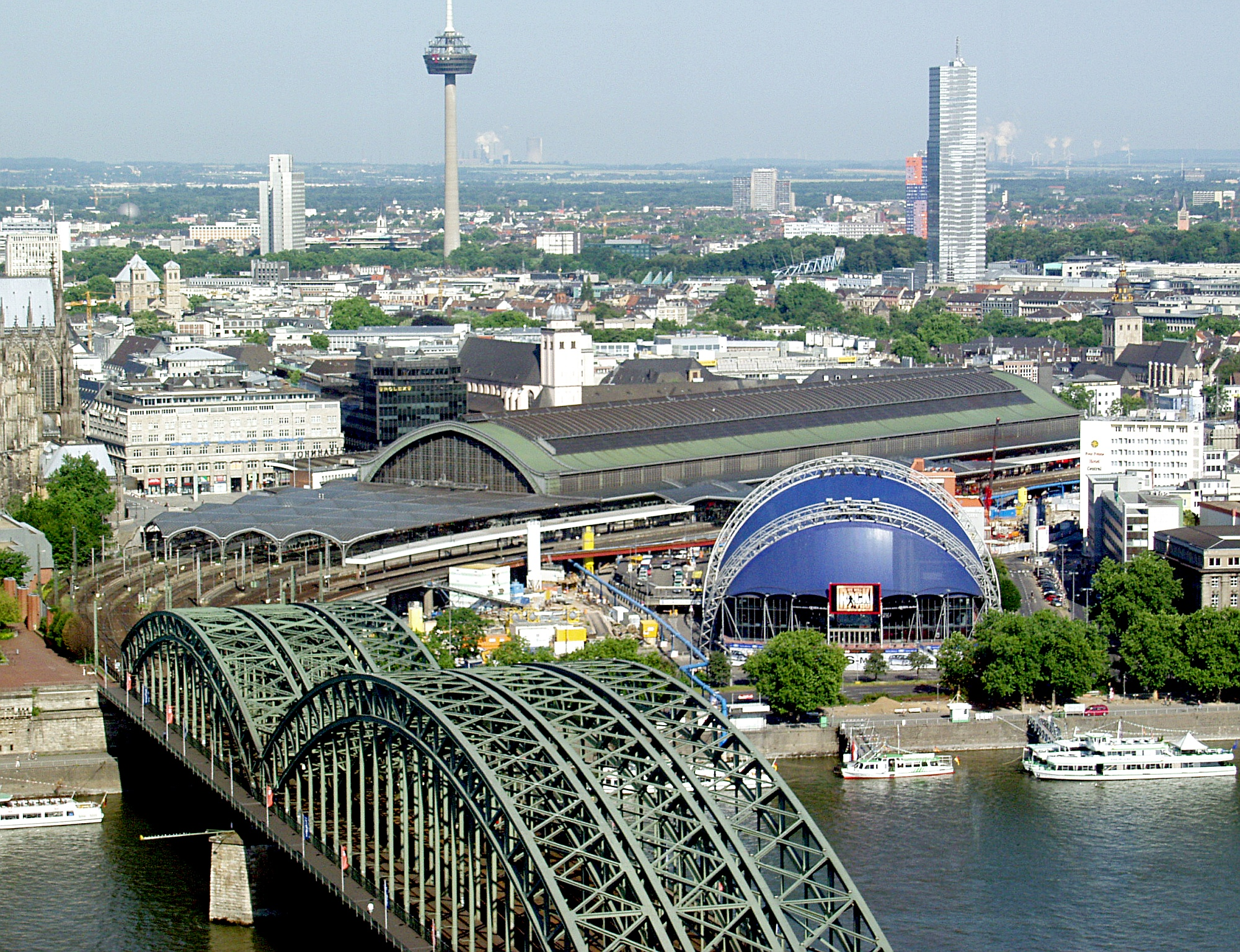 Cologne Main Station, Hohenzollernbrücke and Musical Dome